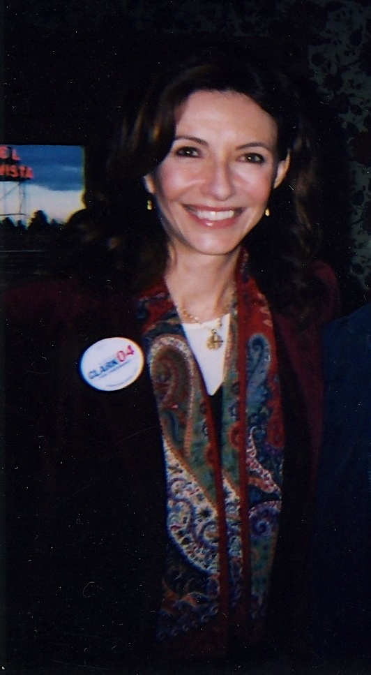 This photo was taken of Mary Steenburgen in 2004 when she was with her husband Ted Danson campaigning in Flagstaff, Arizona for General Wesley Clark and John Kerry.